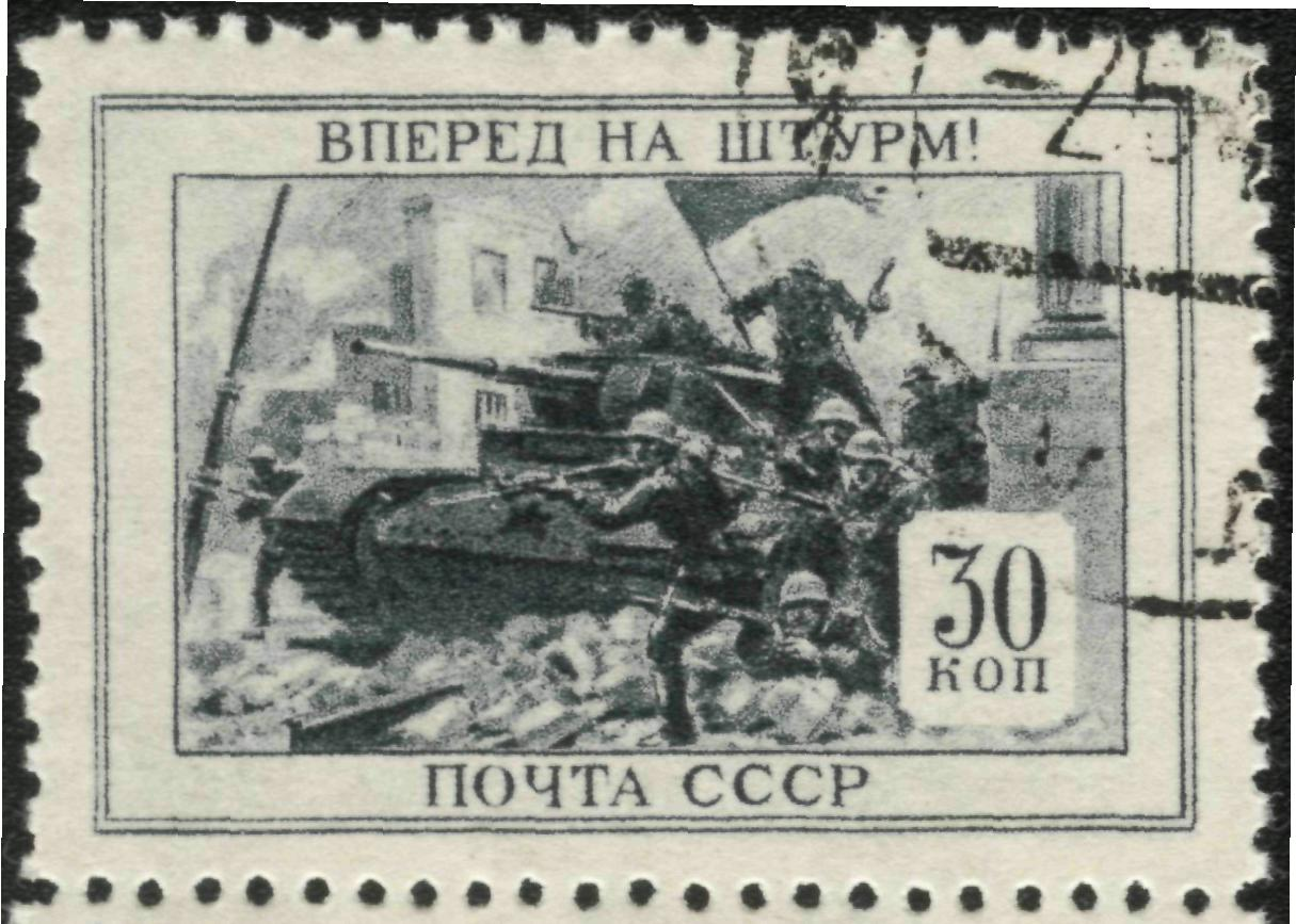 Attack!: Tank-mounted personnel on T-26 Russian tank. USSR stamp, 1945. CPA No. 967.